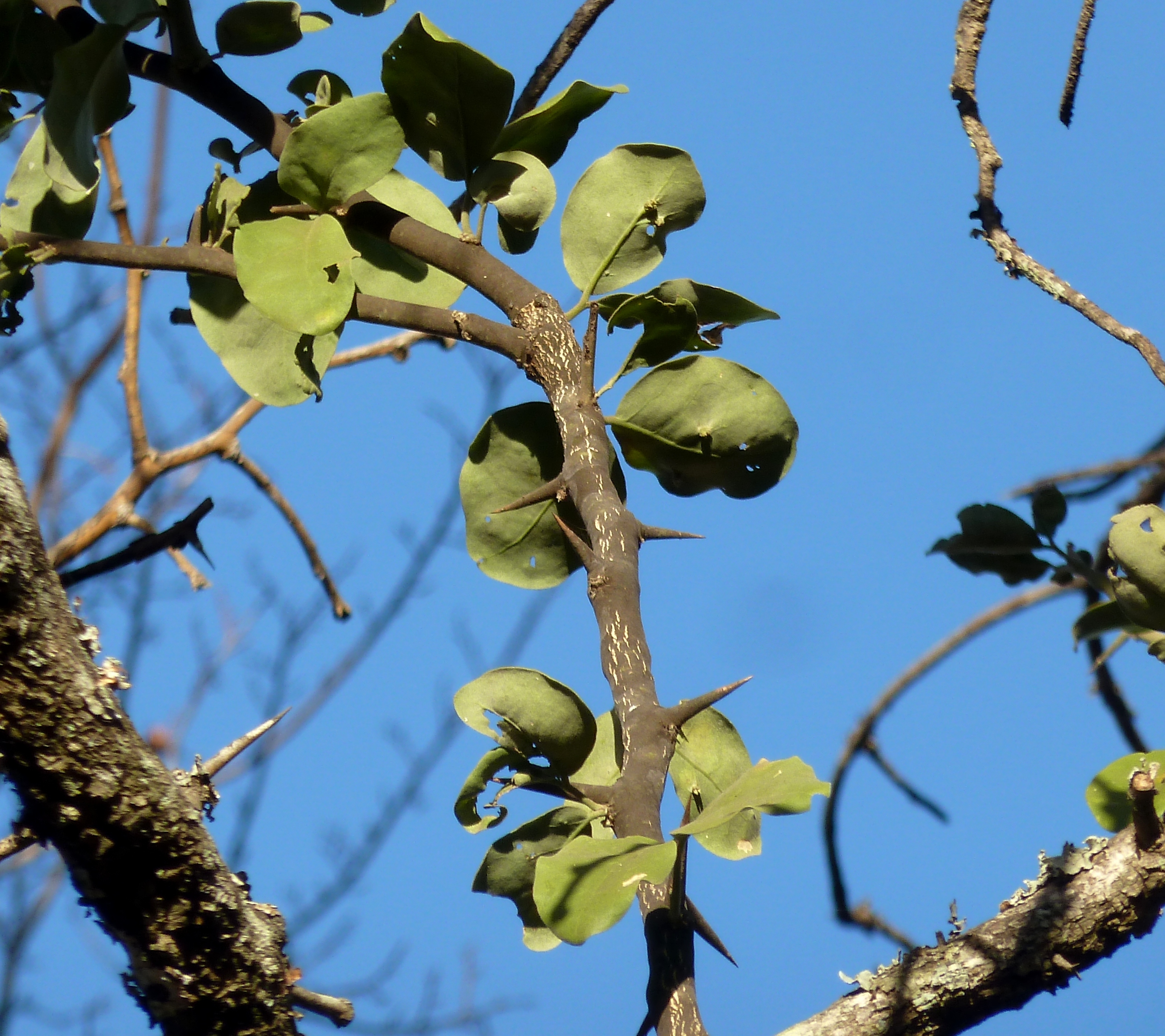 Branch of a Torchwood at Voortrekkerbad, Limpopo